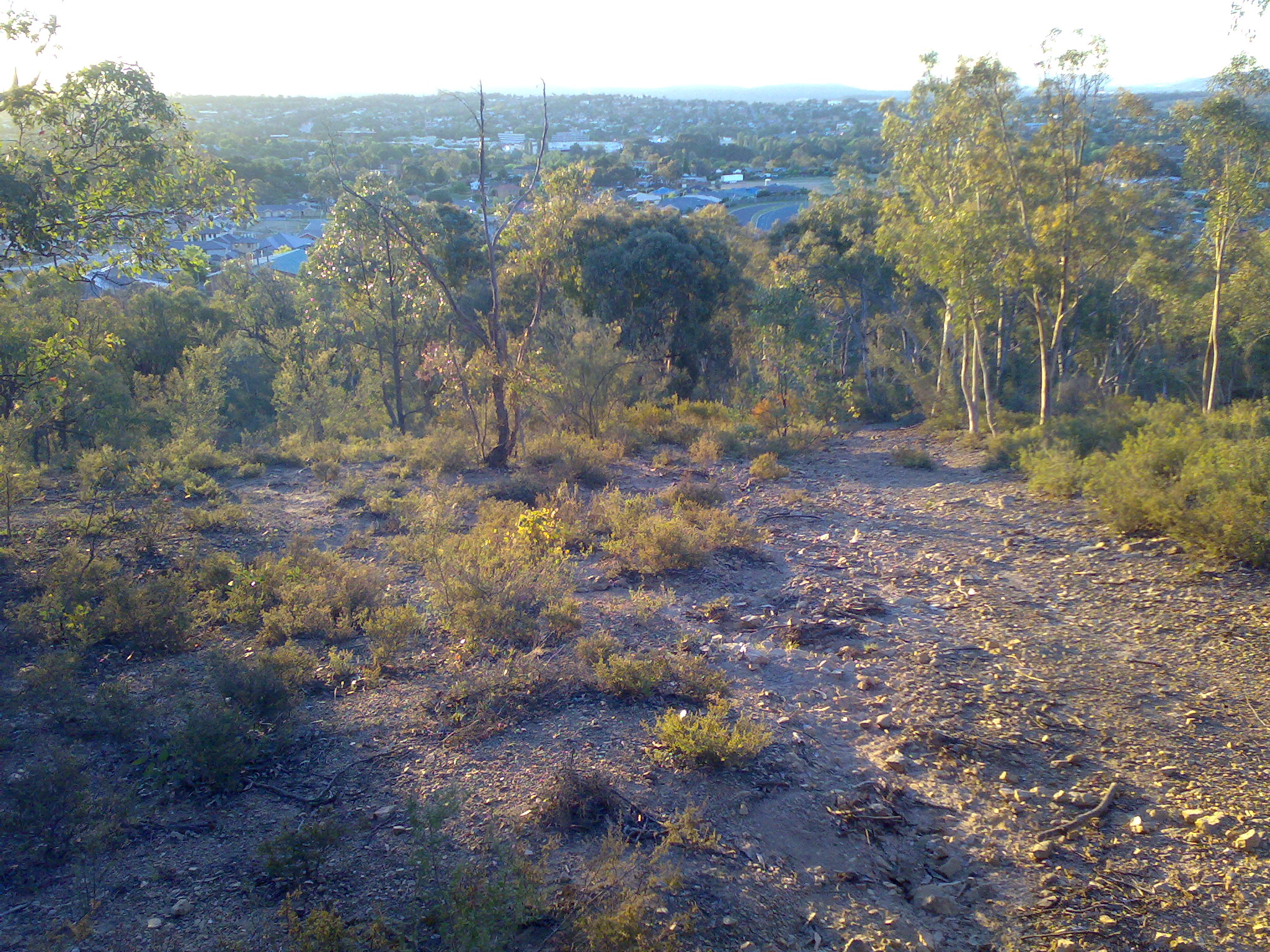 Looking westerly over East Queanbeyan from the city's edge.